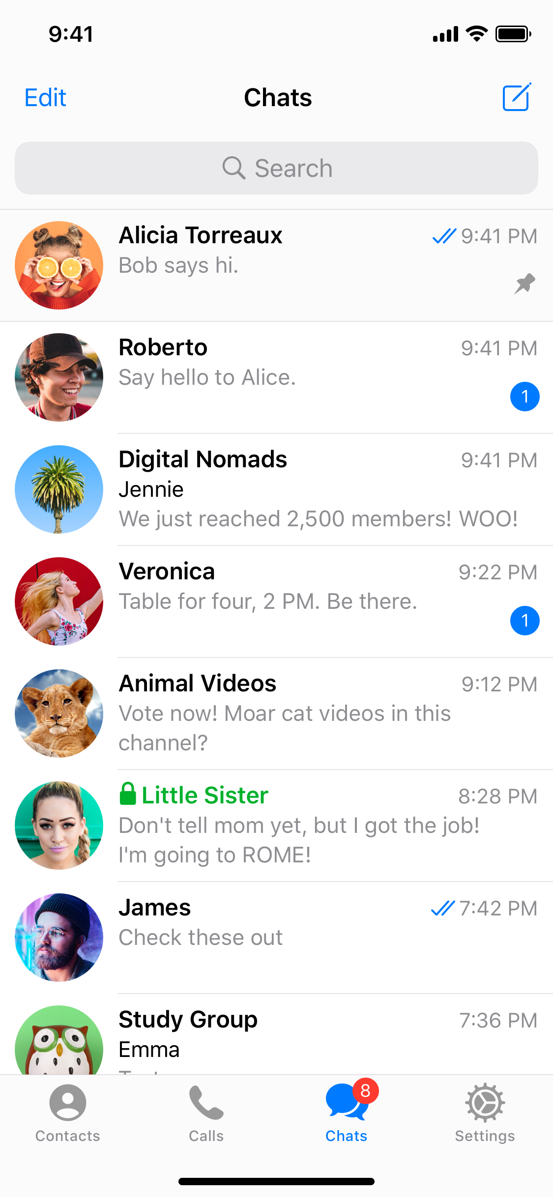 A screenshot of the Telegram for iOS interface showing a list of chats.